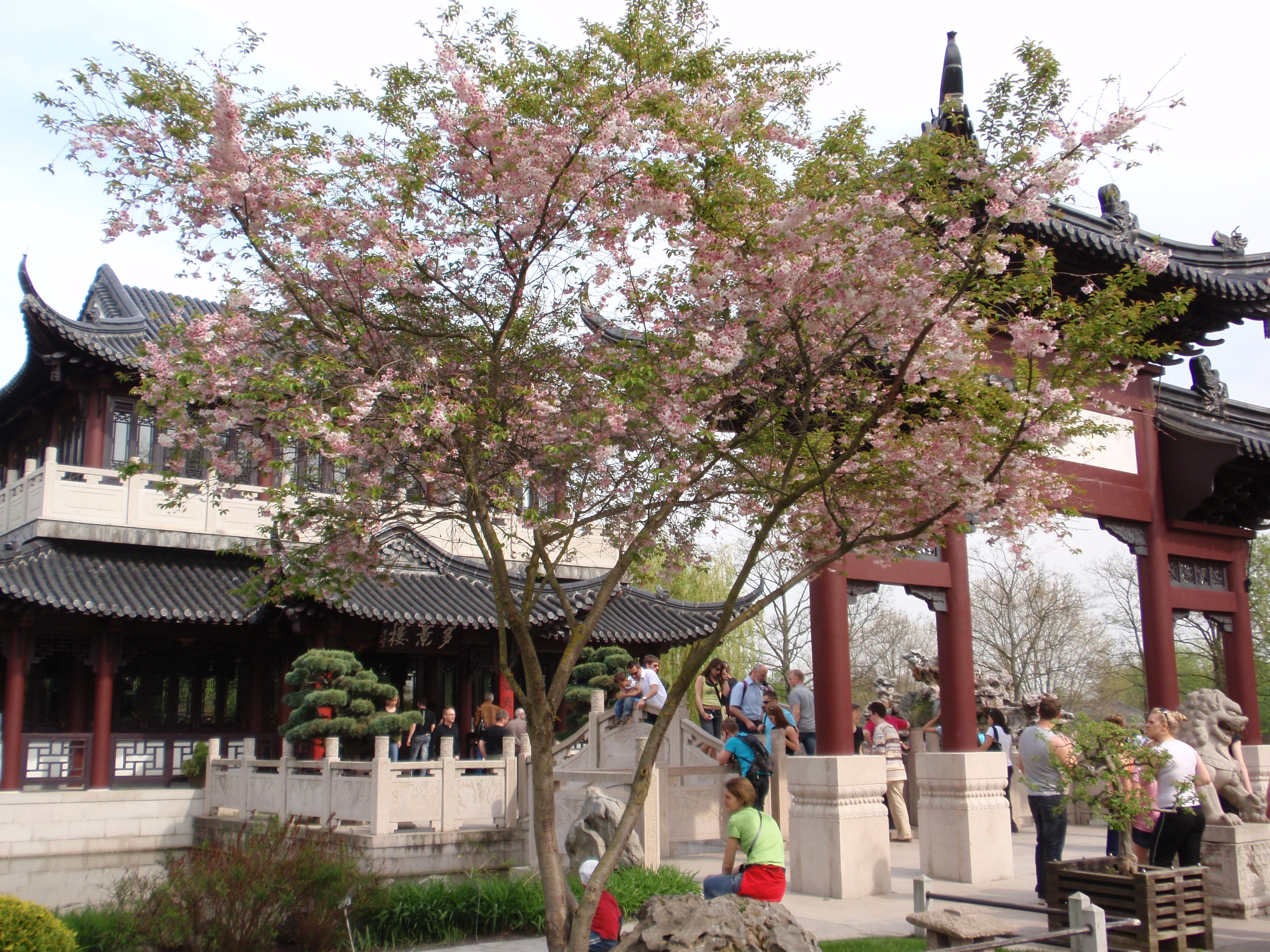 The chinese tea-pavillion "Duojingyuan" ("garden of many views") in the Luisenpark Mannheim (Germany)